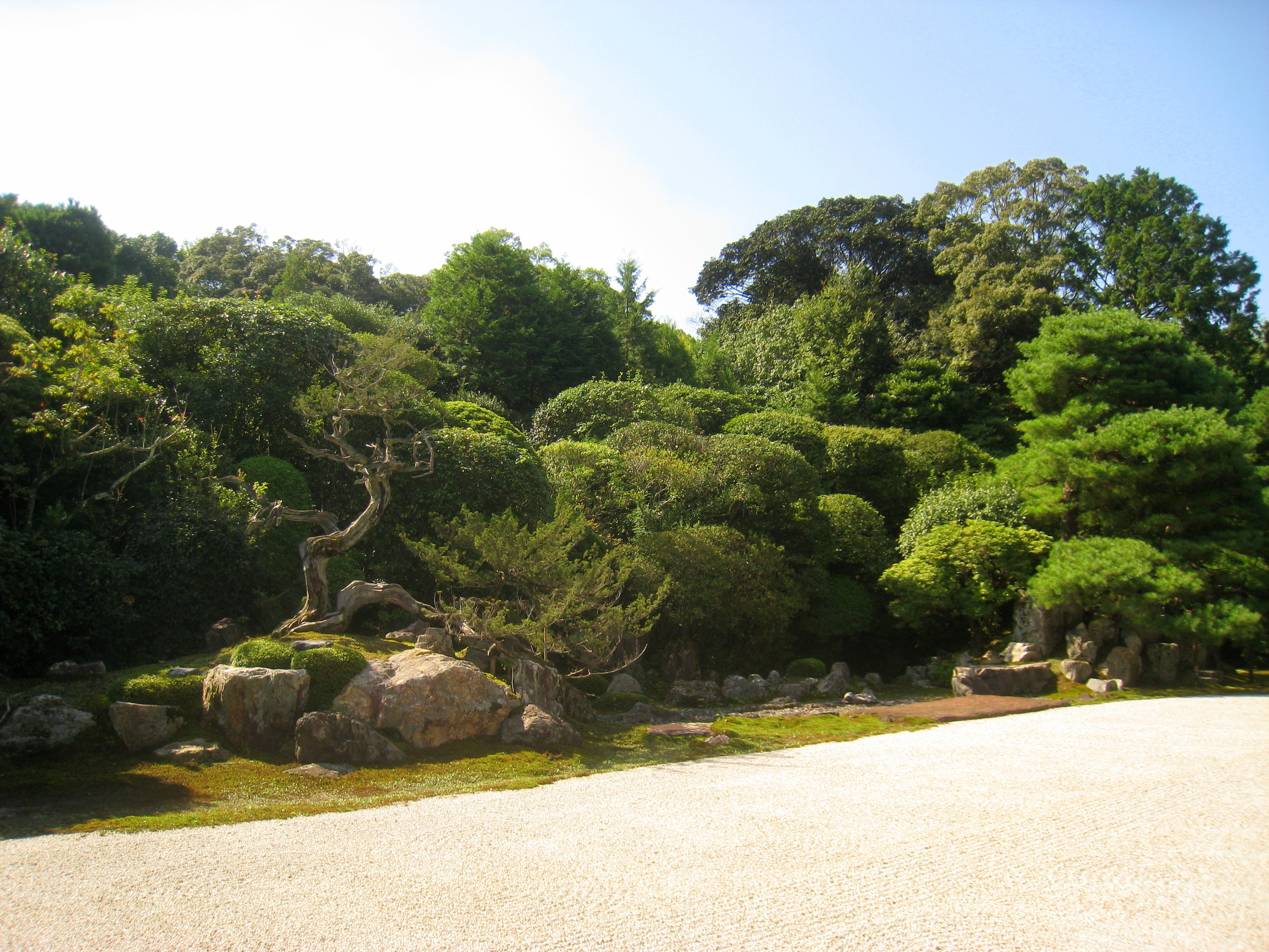 Crane and Turtle Garden, Konchi-in, Kyoto, Japan.